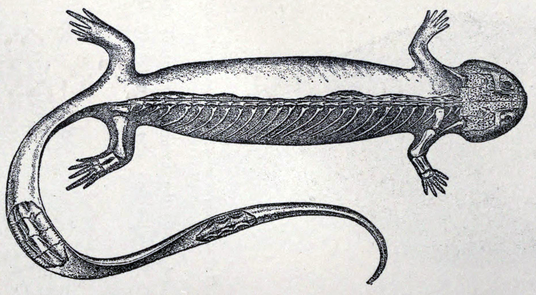 Keraterpeton (or Scincosaurus crassus) restoration